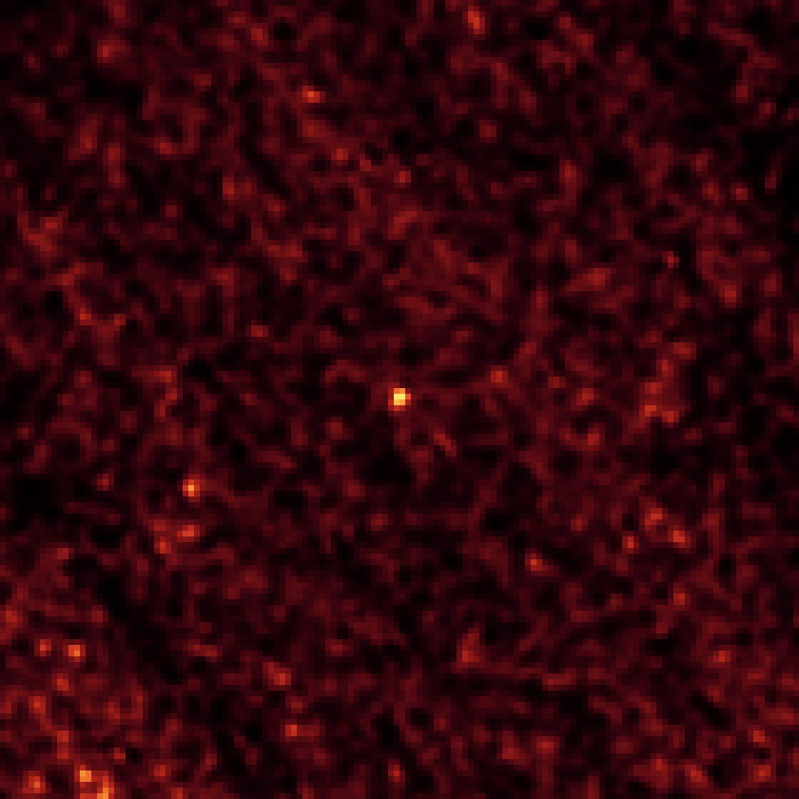 I Spy a Little Asteroid With My Infrared Eye This image of asteroid 2011 MD was taken by NASA's Spitzer Space Telescope in Feb. 2014, over a period of 20 hours. The long observation, taken in infrared light, was needed to pick up the faint signature of the small asteroid (center of frame). The Spitzer observations helped narrow down the size of the space rock to roughly 20 feet (6 meters), making it one of a few candidates for NASA's proposed Asteroid Redirect Mission for which sizes are approximately known. This image was taken by Spitzer's Infrared Array Camera at a wavelength of 4.5 microns. NASA's Jet Propulsion Laboratory, Pasadena, Calif., manages the Spitzer Space Telescope mission for NASA's Science Mission Directorate, Washington. Science operations are conducted at the Spitzer Science Center at the California Institute of Technology in Pasadena. Spacecraft operations are based at Lockheed Martin Space Systems Company, Littleton, Colorado. Data are archived at the Infrared Science Archive housed at the Infrared Processing and Analysis Center at Caltech. Caltech manages JPL for NASA. For more information about Spitzer, visit and Date added: 2014-06-19